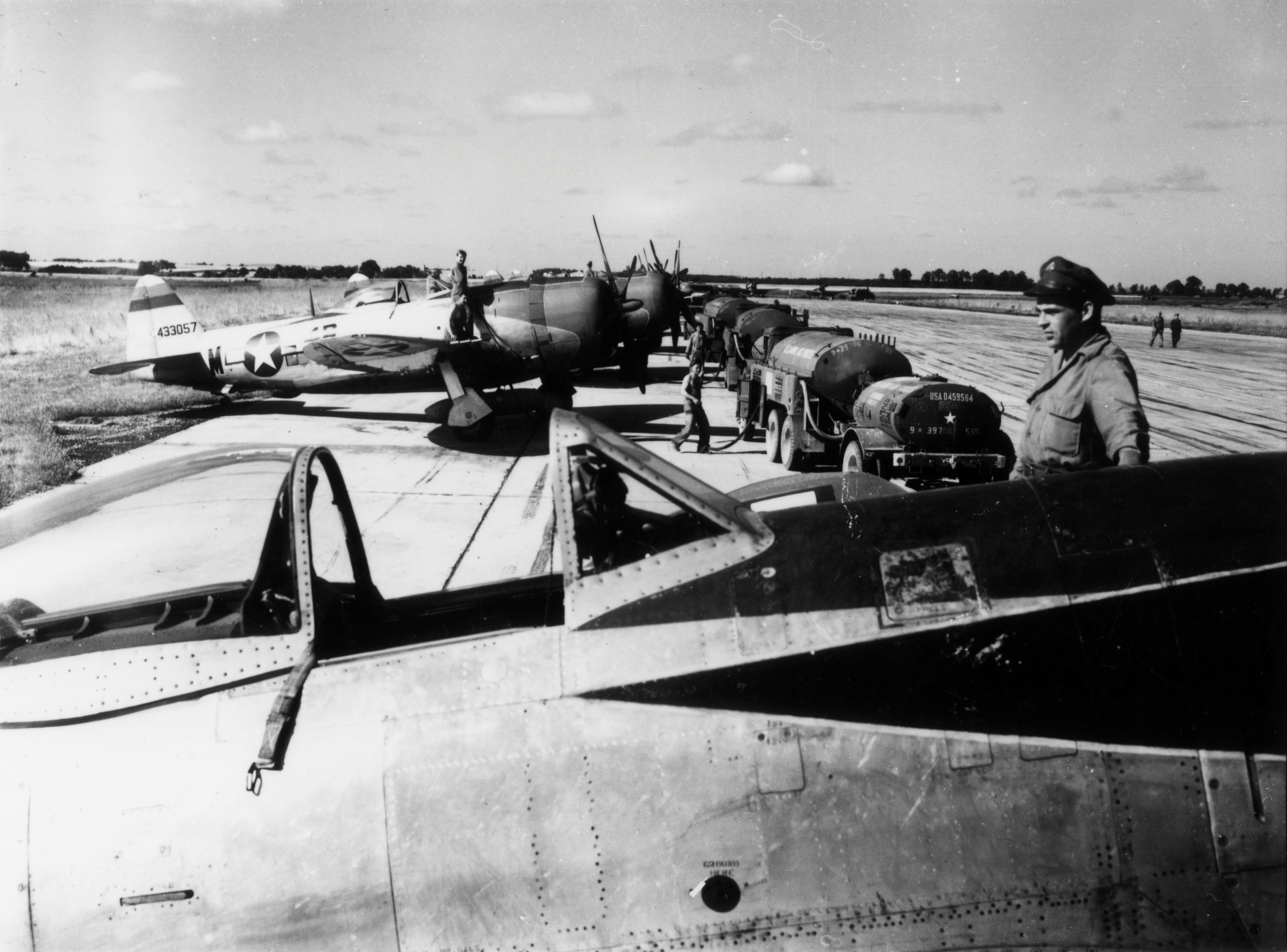 Ground personnel of the 406th Fighter Group refuel P-47 Thunderbolts, including (serial number 44-33057). Handwritten caption on reverse: '406 FG, tail colours.'